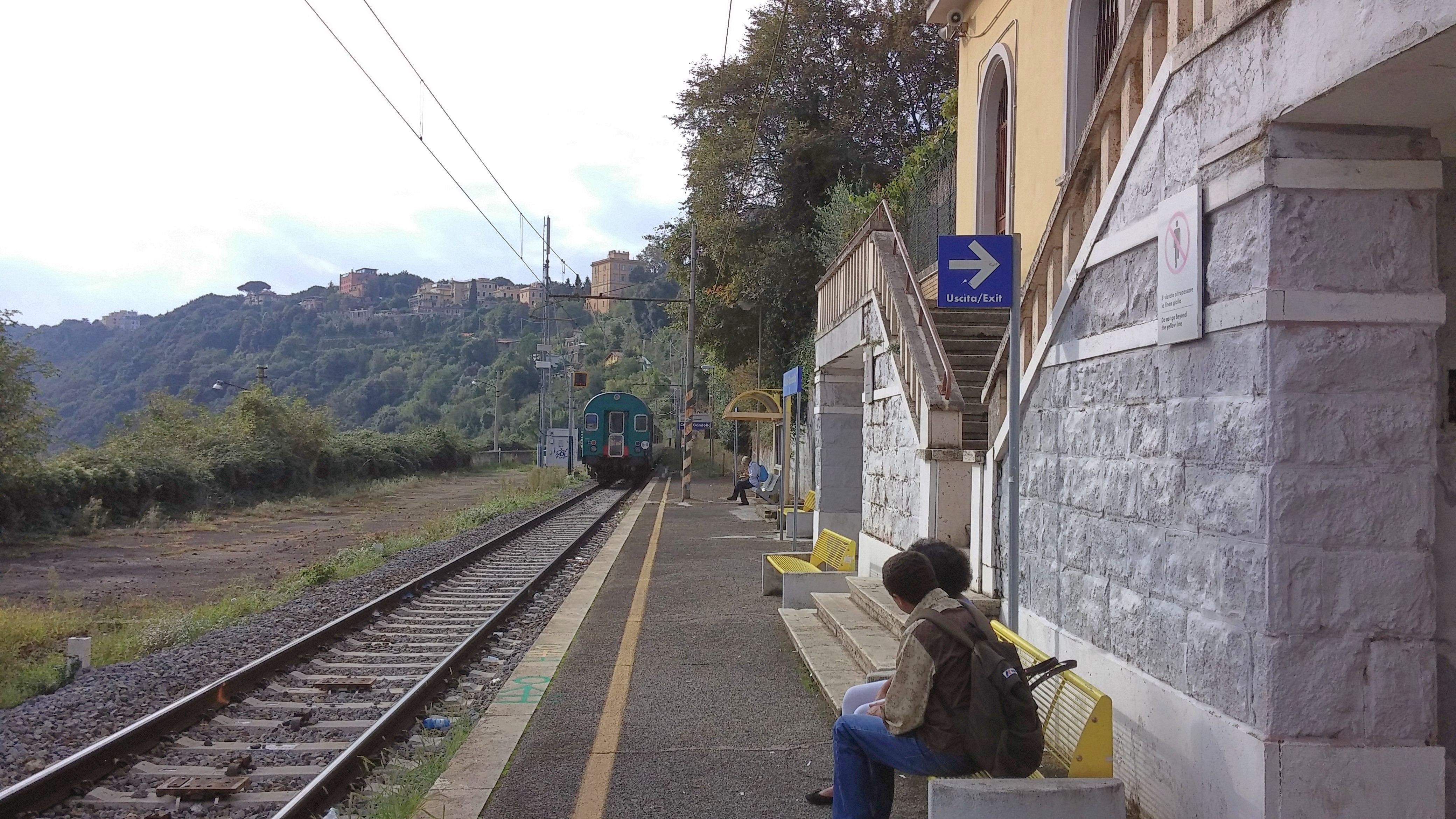 Train station of Castel Gandolfo